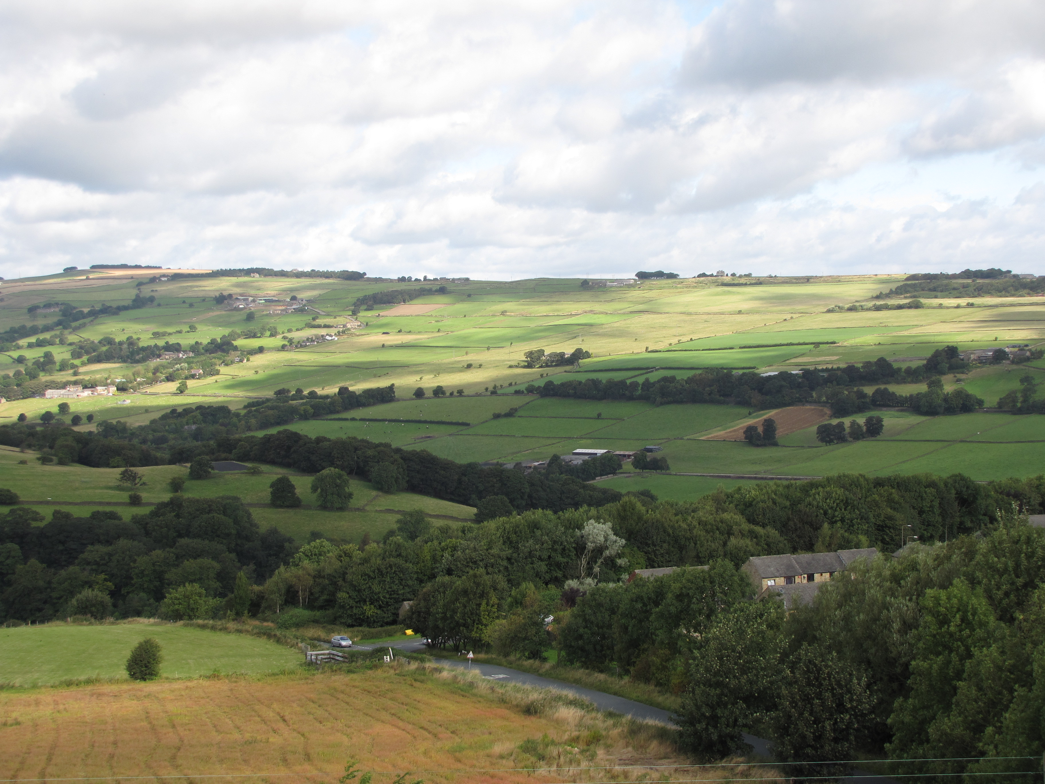 Loxley Chase on the northern side of the Loxley Valley in Sheffield, England.